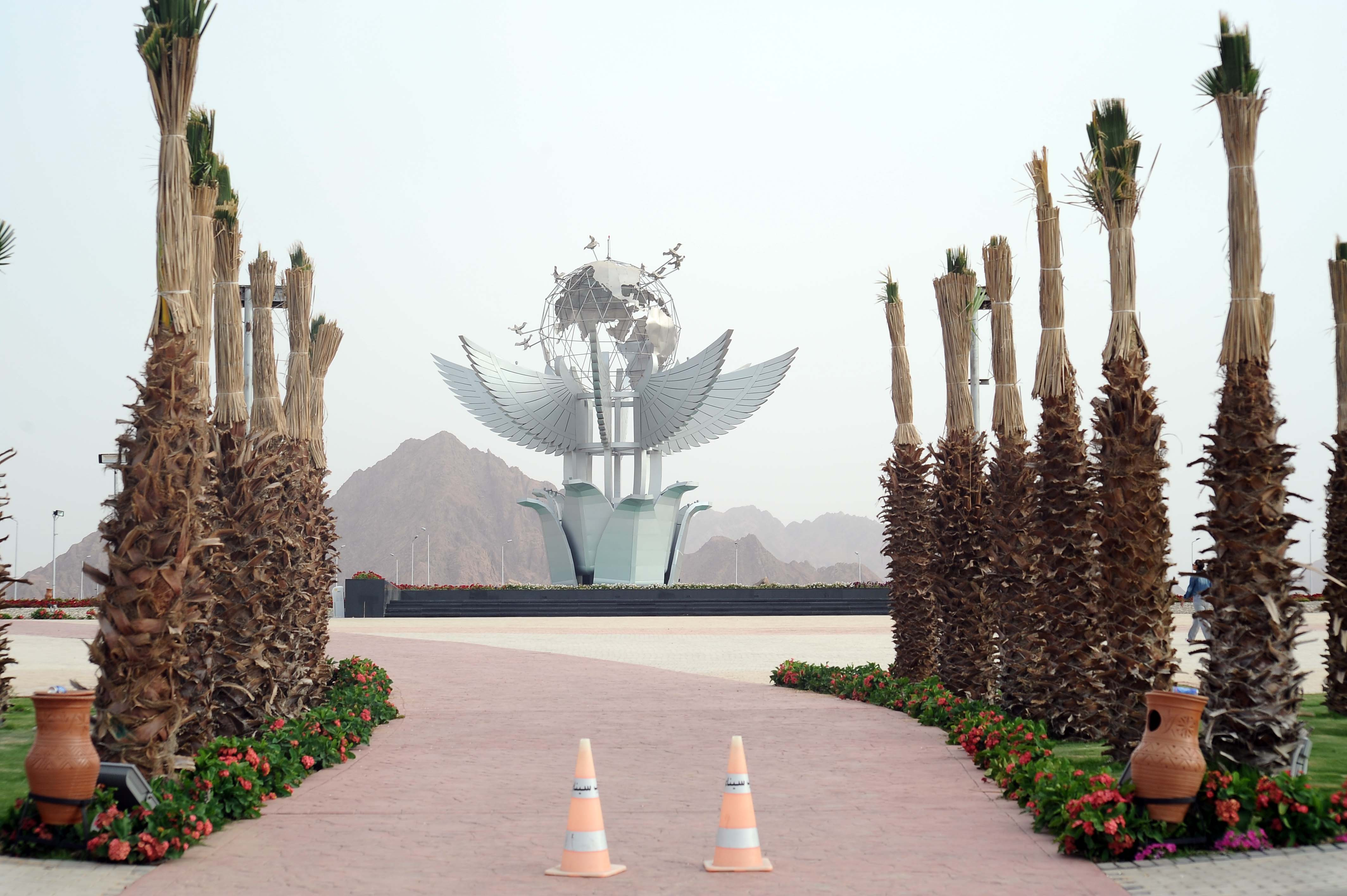 Peace Icon in Sharm El-Sheikh